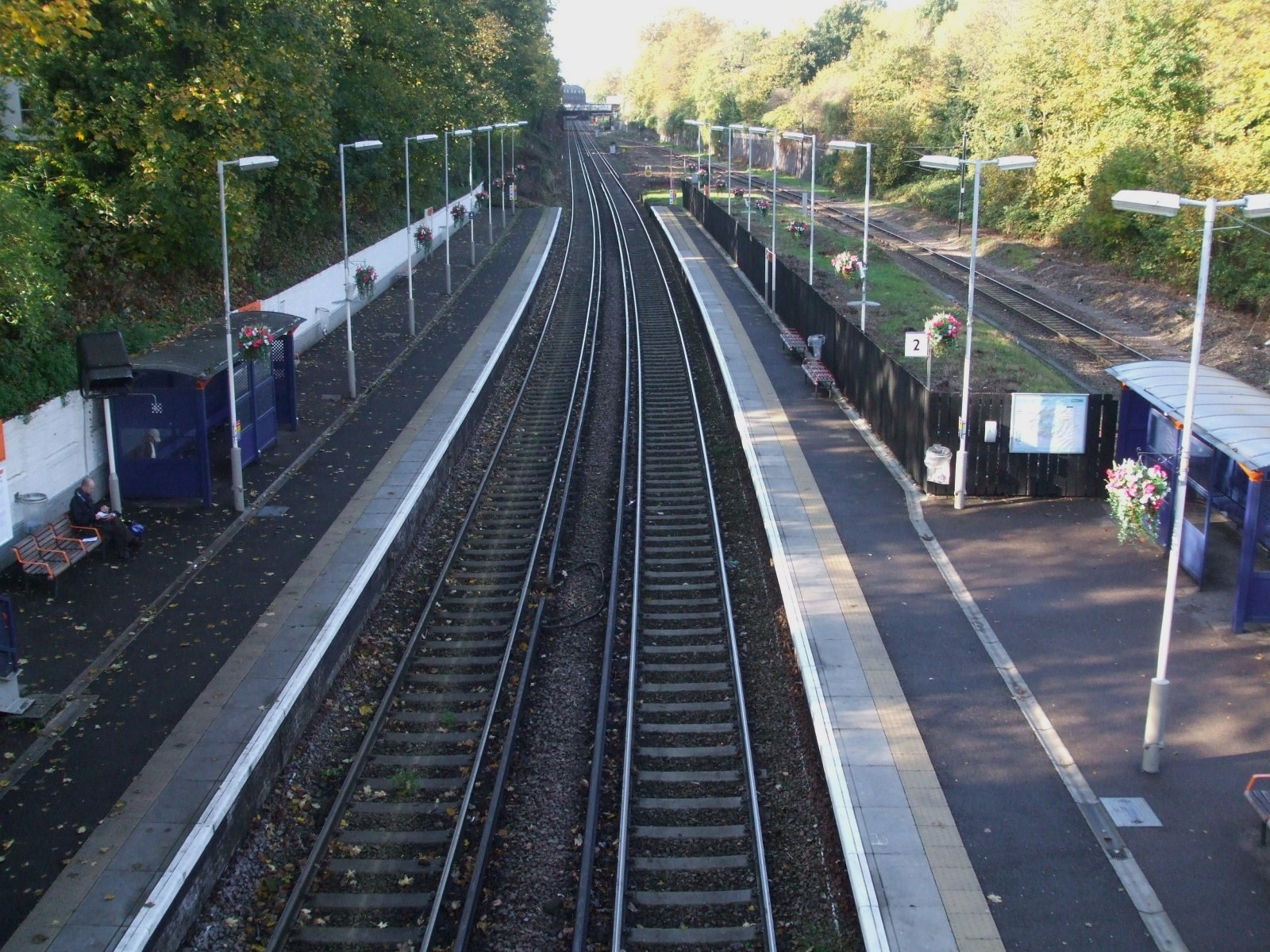 Canonbury station looking west from footbridge, with the AC electrified freight track visible on the right